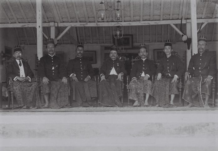 Portrait of local Javanese governors, Patih and Wedono's, on occasion of the departure of Assistent-Resident J.B. Prins from Blora.